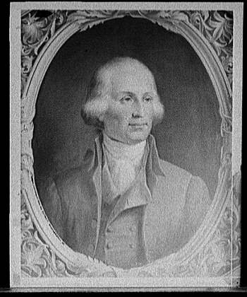 Samuel Osgood, first postmaster general, head-and-shoulders portrait.